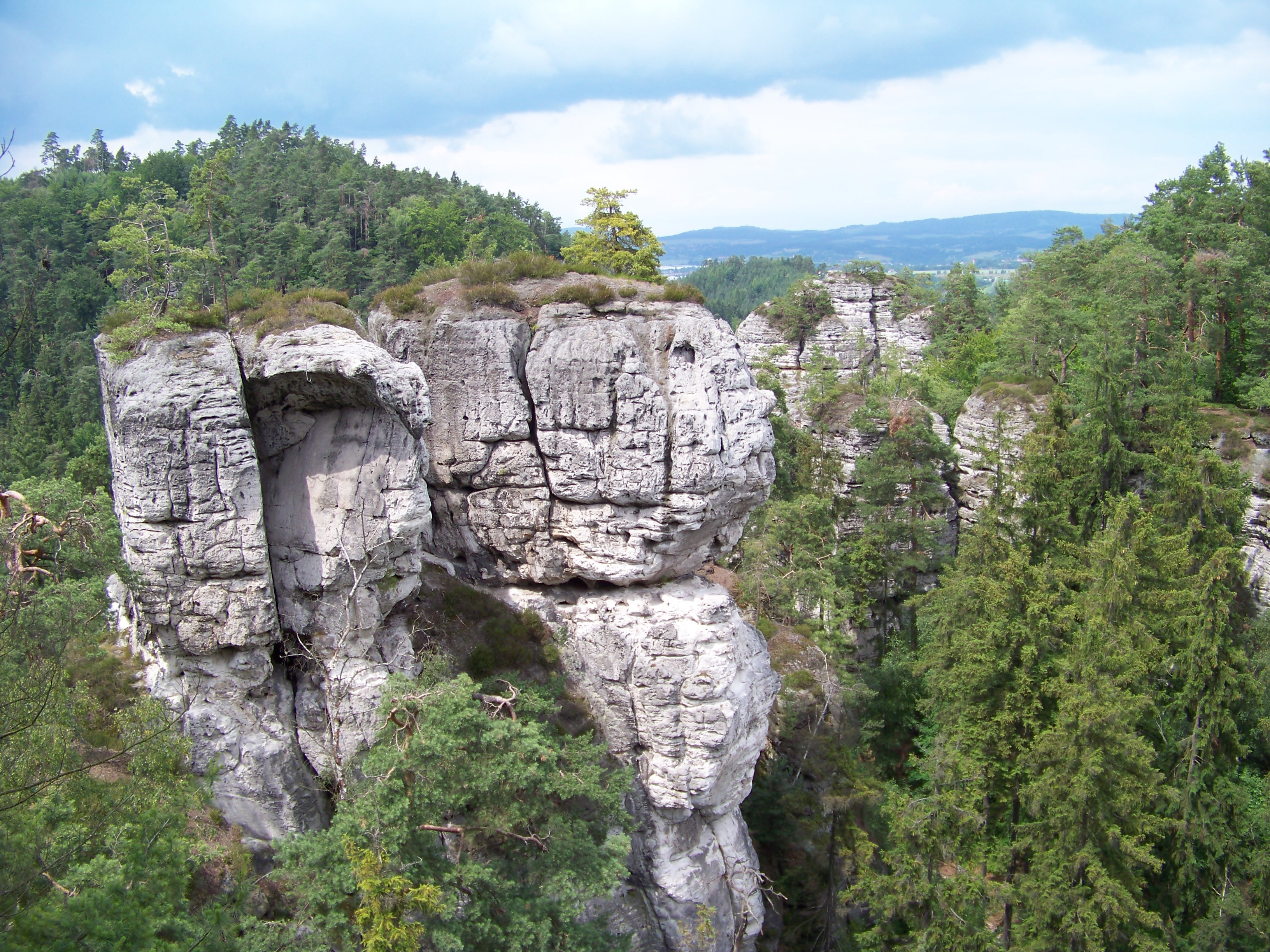 Rocks of Hrubá Skála, Liberec Region, the Czech Republic.